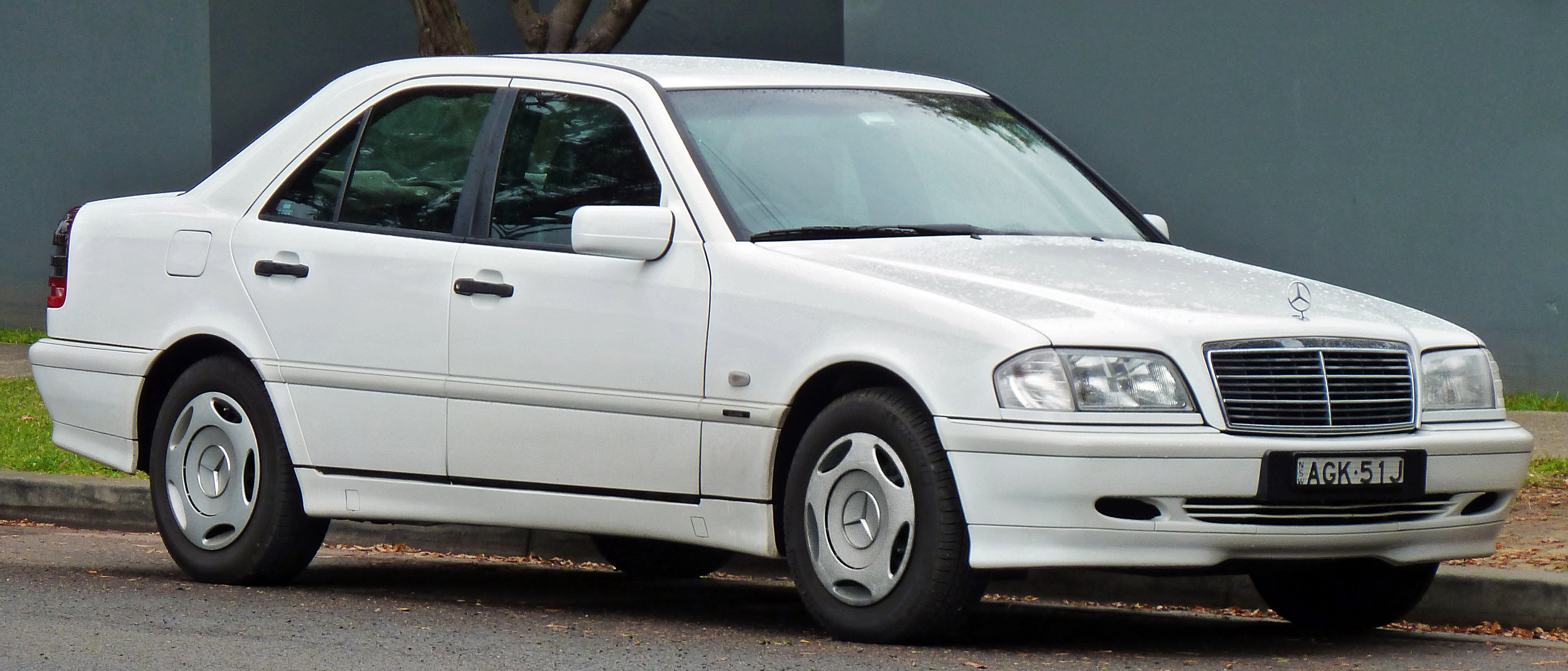 1998 Mercedes-Benz C 200 (W 202) Classic sedan. Photographed in Gymea, New South Wales, Australia.